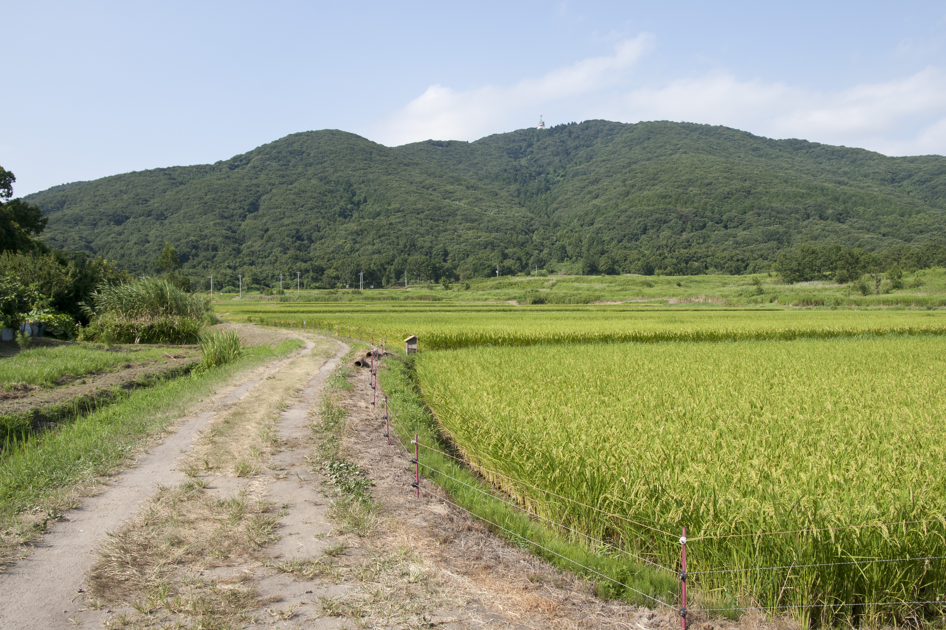 Mount Hokyo(Hokyo-san ほうきょうさん 宝篋山), Tsukuba Mountains, Japan.